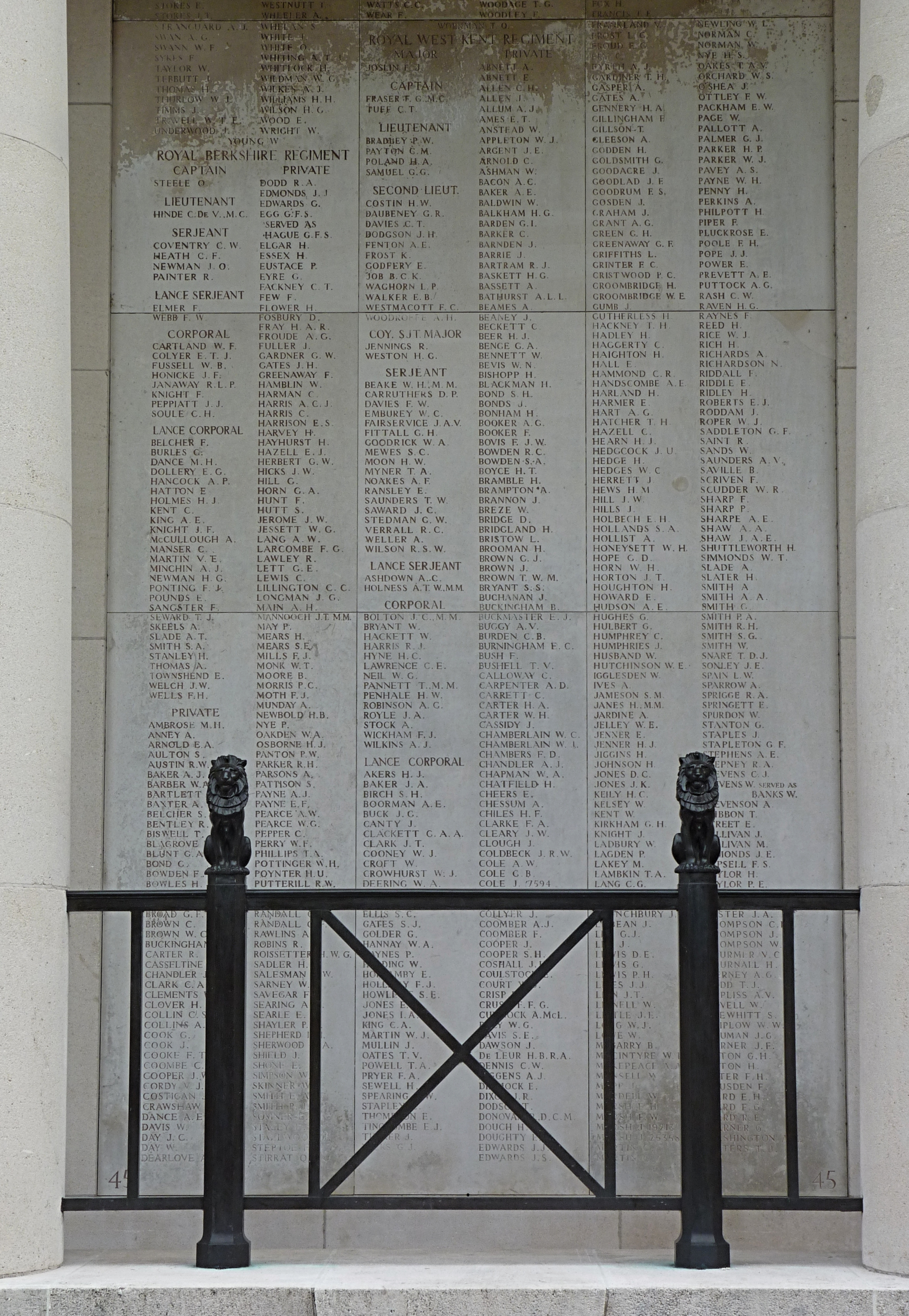 Menin Gate in Ieper, Belgium